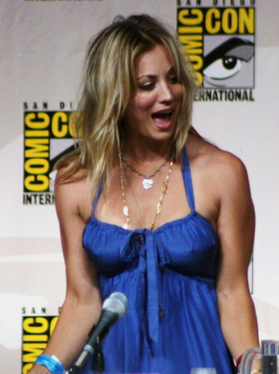 Kaley Cuoco at San Diego Comic-Con International 2009